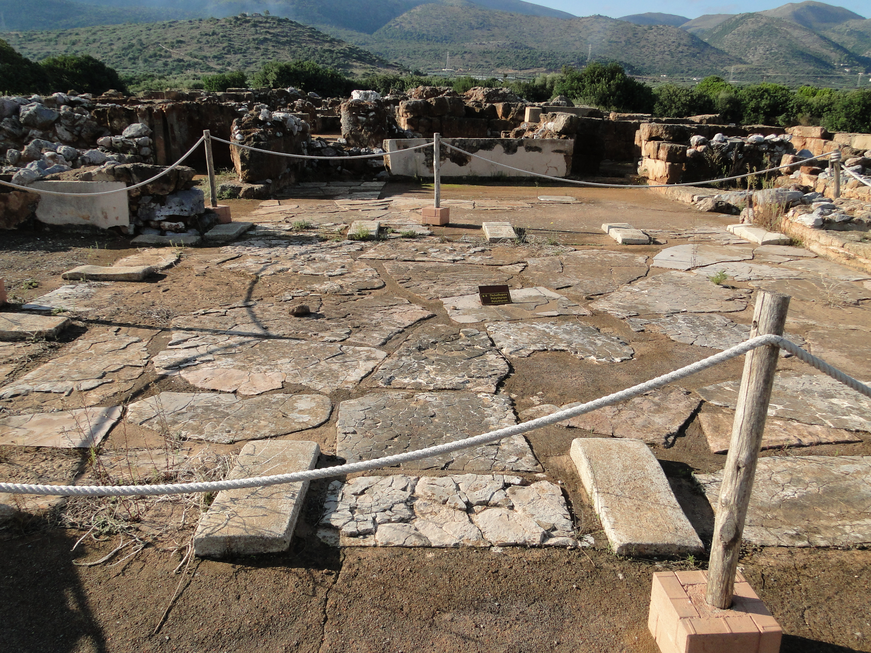 The Polythyron in the Palace of Malia, Crete, Greece